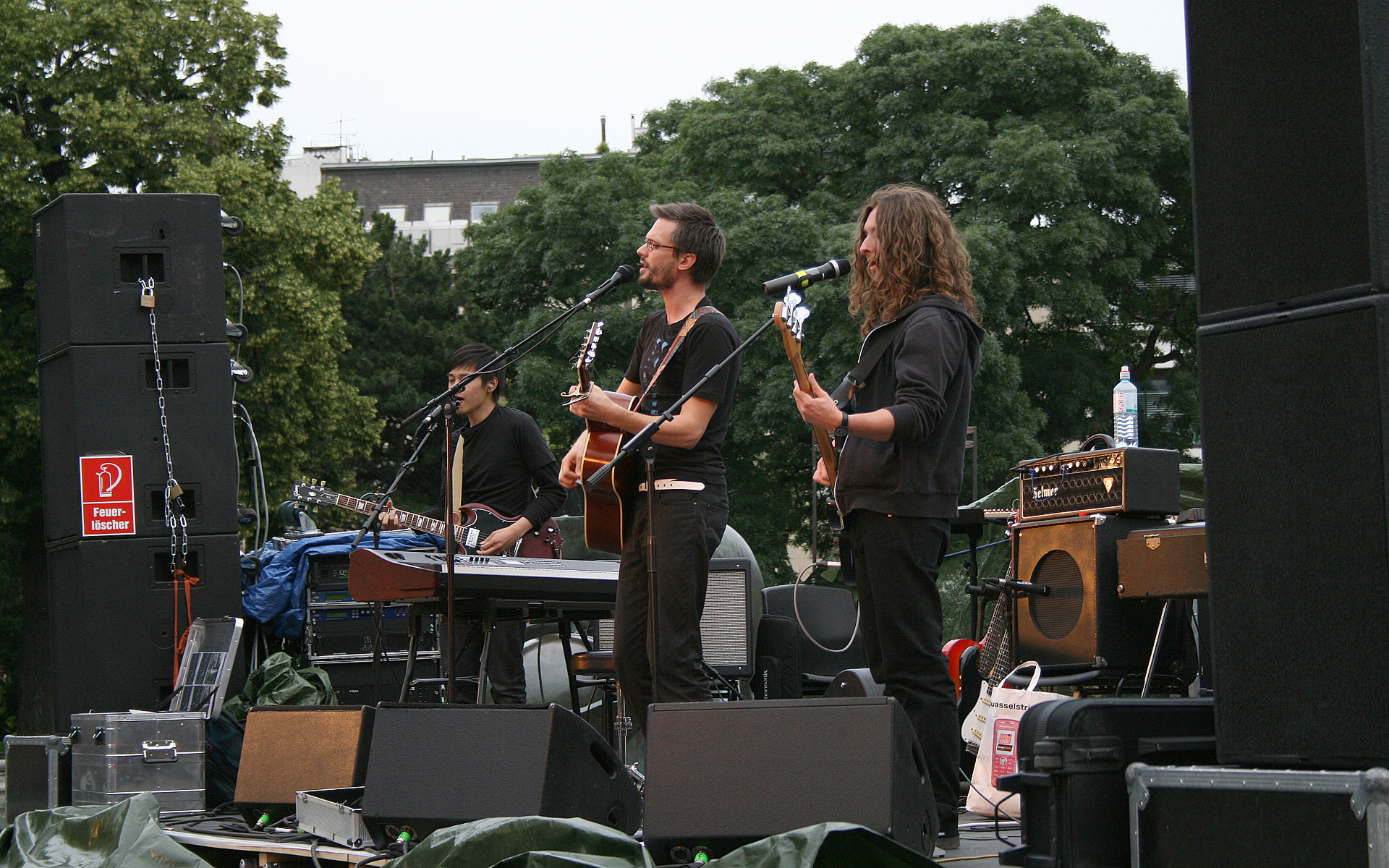 Ben Martin & Band, concert at Kunstzone Karlsplatz in Vienna, Austria.